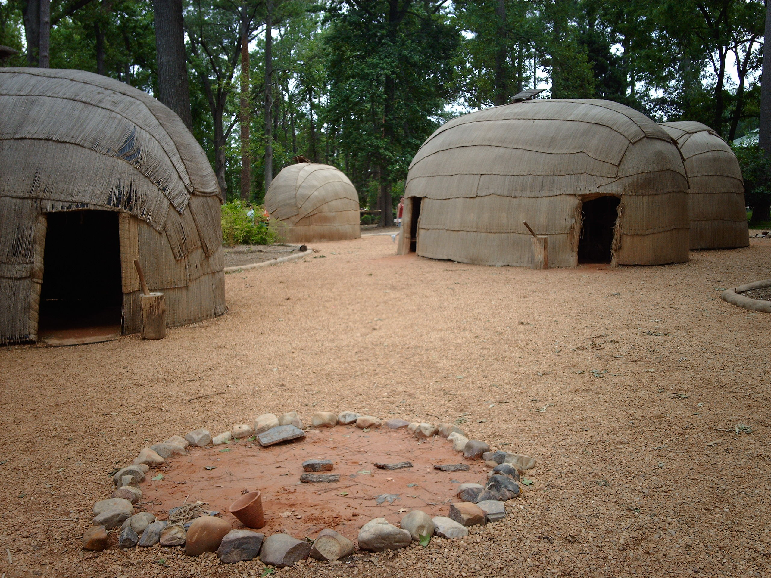 Jamestown Settlement, Powhatan Village Category:National parks of the United States Category:Images of Virginia